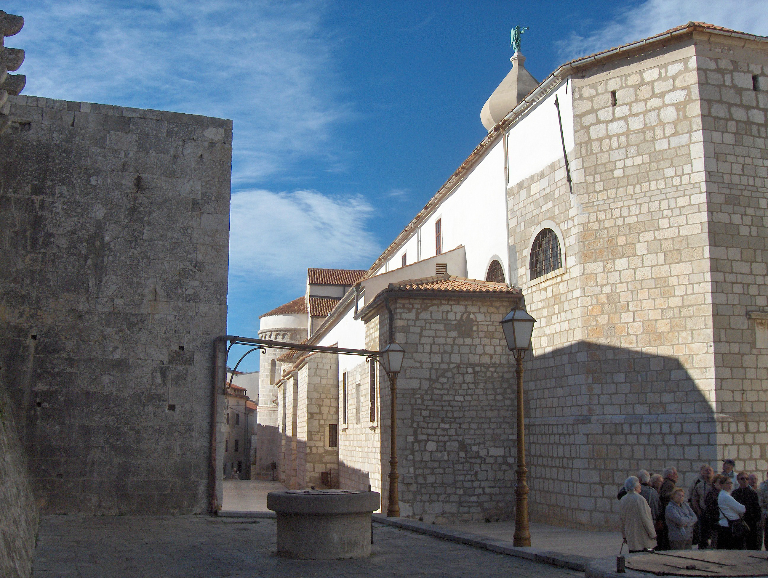 Church of the Assumption, Krk, on the island of Krk, Croatia